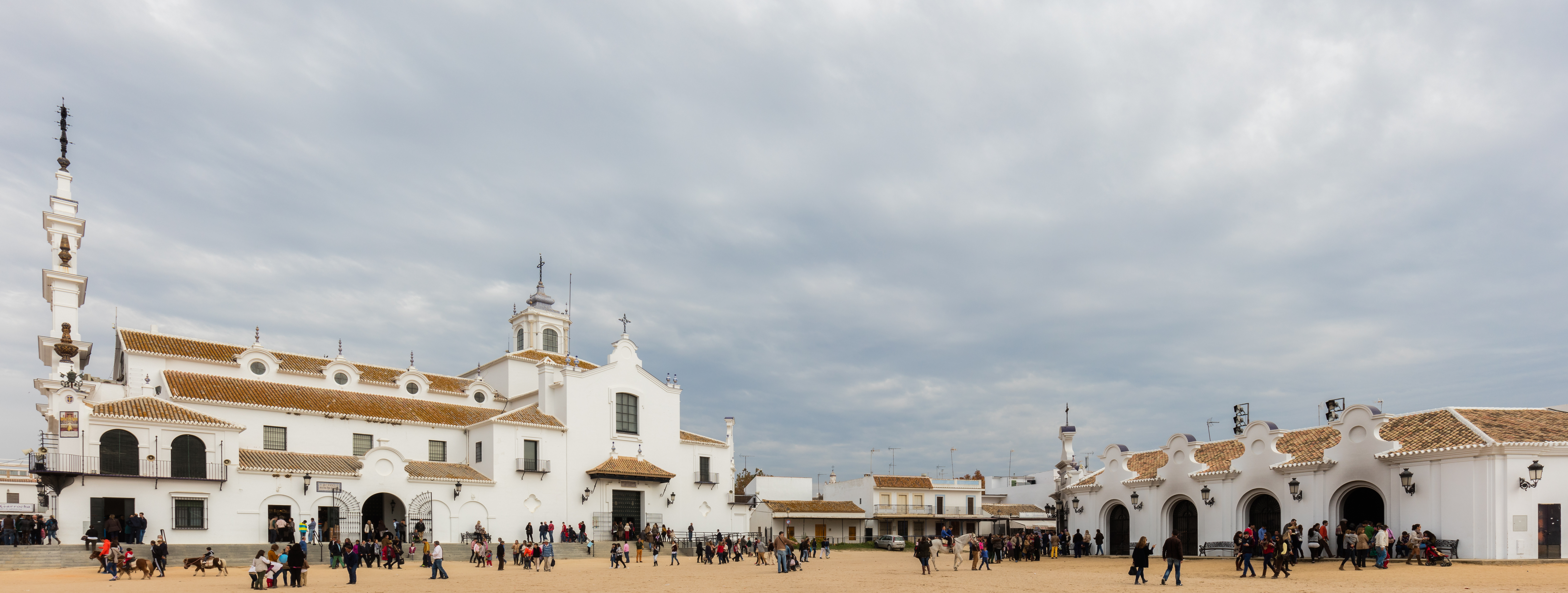 Ermita del Rocío, El Rocío, Huelva, Spain